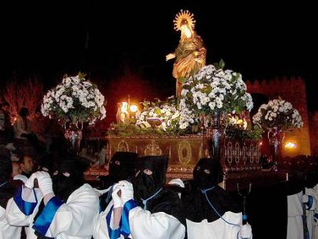 SANTA MARIA MAGDALENA, Holy Week in Ávila, Spain